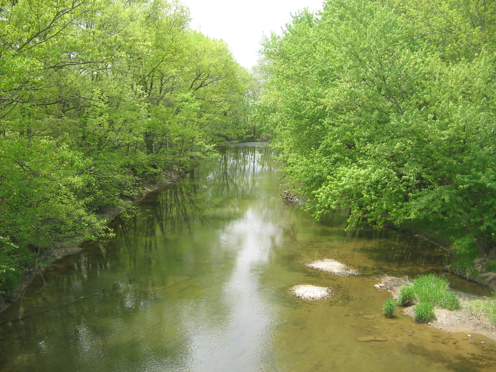 Chillisquaque Creek, looking southwest from the Interstae 80 bridge, Liberty Township, Montour County, Pennsylvania, USA.